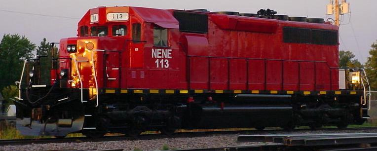 Nebraska Northeastern Locomotive #113, type - SD40R